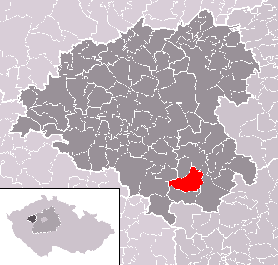 Location of Branov municipality within Rakovník District and (identical) administrative area of Rakovník as a Municipality with Extended Competence.